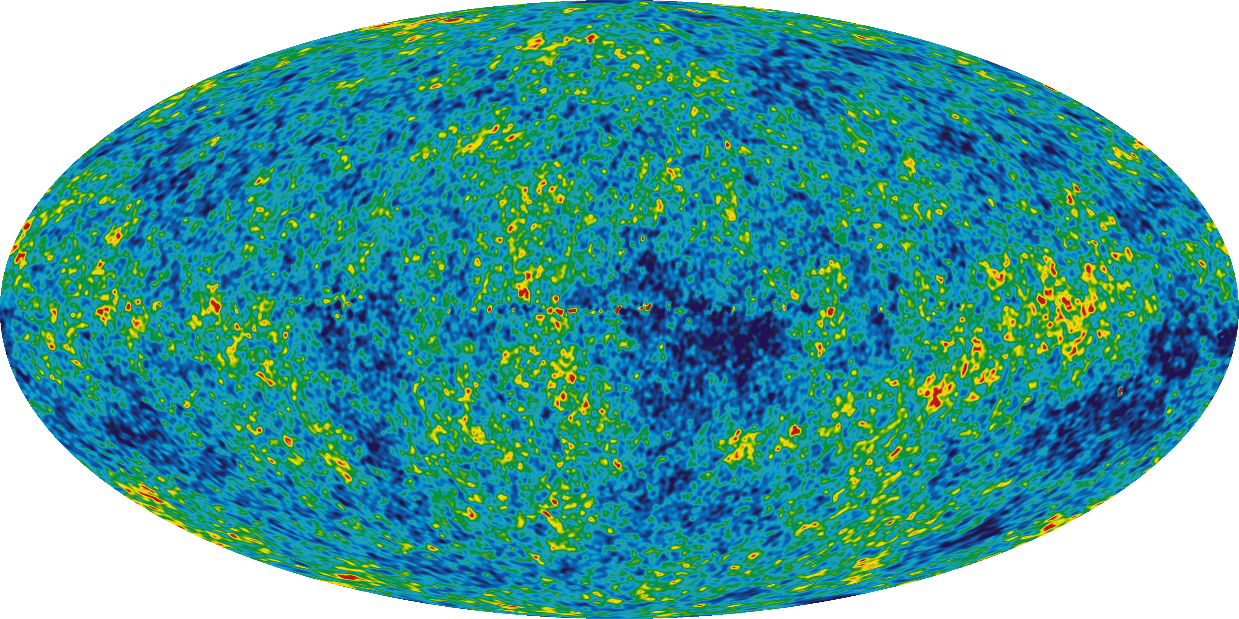 The Cosmic Microwave Background temperature fluctuations from the 5-year Wilkinson Microwave Anisotropy Probe data seen over the full sky. The average temperature is 2.725 kelvins (degrees above absolute zero; absolute zero is equivalent to −273.15 °C or −459 °F), and the colors represent the tiny temperature fluctuations, as in a weather map. Red regions are warmer and blue regions are colder by about 0.0002 degree.